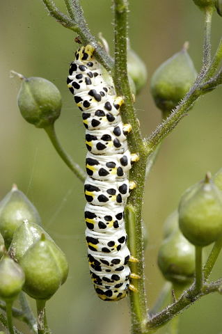 Picture taken in Commanster, Belgian High Ardennes . Species: Shargacucullia scrophulariae caterpillar